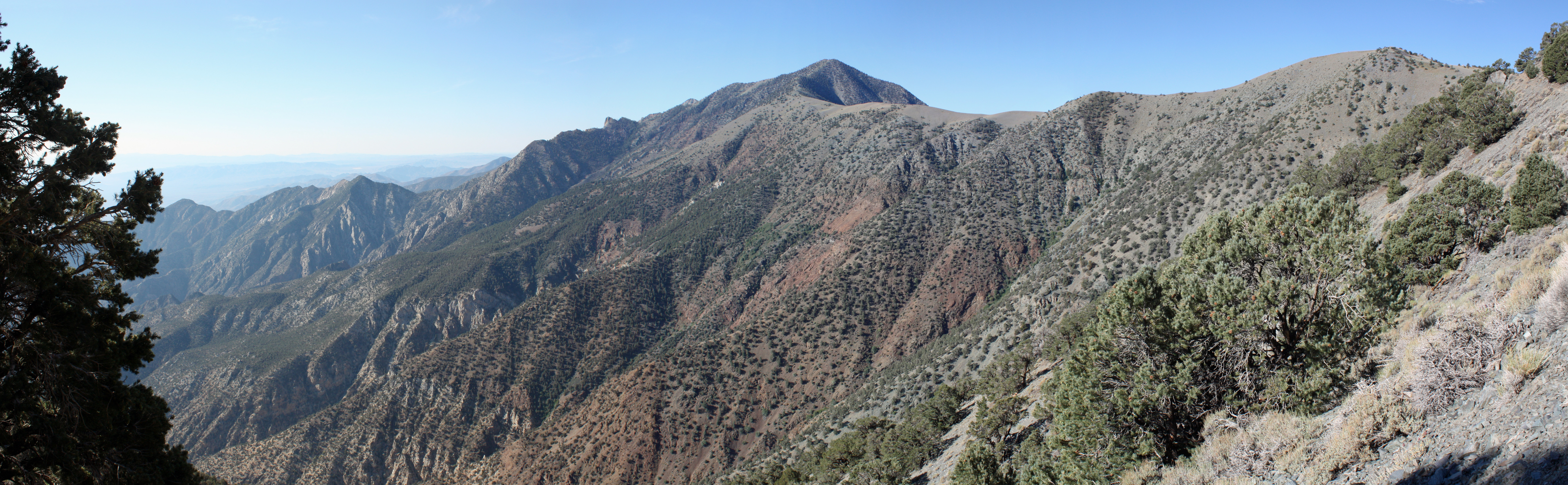 Looking south towards Telescope Peak and the southern Panamint Range from the Telescope Peak Trail out of Mahogany Flat Campground. The actual summit is the rocky peak immediately to the left of the highest apparent peak. Death Valley is to the left.